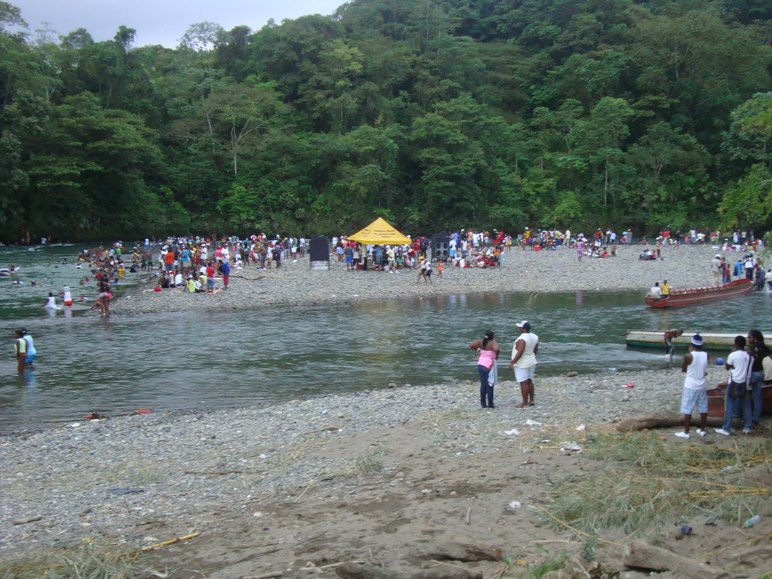 This is a photo of the Condoto River